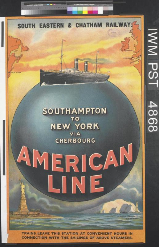 American Line whole: the five images occupy the majority, held within a narrow black border. The title and text are integrated and positioned across the image, in black, in white outlined black, and in red outlined white. Further text is separate and placed along the bottom edge, in black. All set against an orange background. image: a depiction of a cruise liner, set against orange clouds, sailing atop a large blue globe. Maps of the north-eastern coast of America and western Europe, illustrating Ireland, Great Britain and north-western France, are positioned in the upper quarter. A depiction of the Statue of Liberty and the Needles Lighthouse on the Isle of Wight, overlooking the sea and set against a cloudy sky, are positioned in the lower quarter. text: SOUTH EASTERN and CHATHAM RAILWAY NEW YORK QUEENSTOWN PLYMOUTH SOUTHAMPTON CHERBOURG SOUTHAMPTON TO NEW YORK VIA CHERBOURG AMERICAN LINE THE STATUE OF LIBERTY, NEW YORK THE NEEDLES LIGHTHOUSE, ISLE OF WIGHT. COPYRIGHT. SIR JOSEPH CAUSTON and SONS, LIMITED, DESIGNERS AND PRINTERS, LONDON. TRAINS LEAVE THIS STATION AT CONVENIENT HOURS IN CONNECTION WITH THE SAILINGS OF ABOVE STEAMERS.